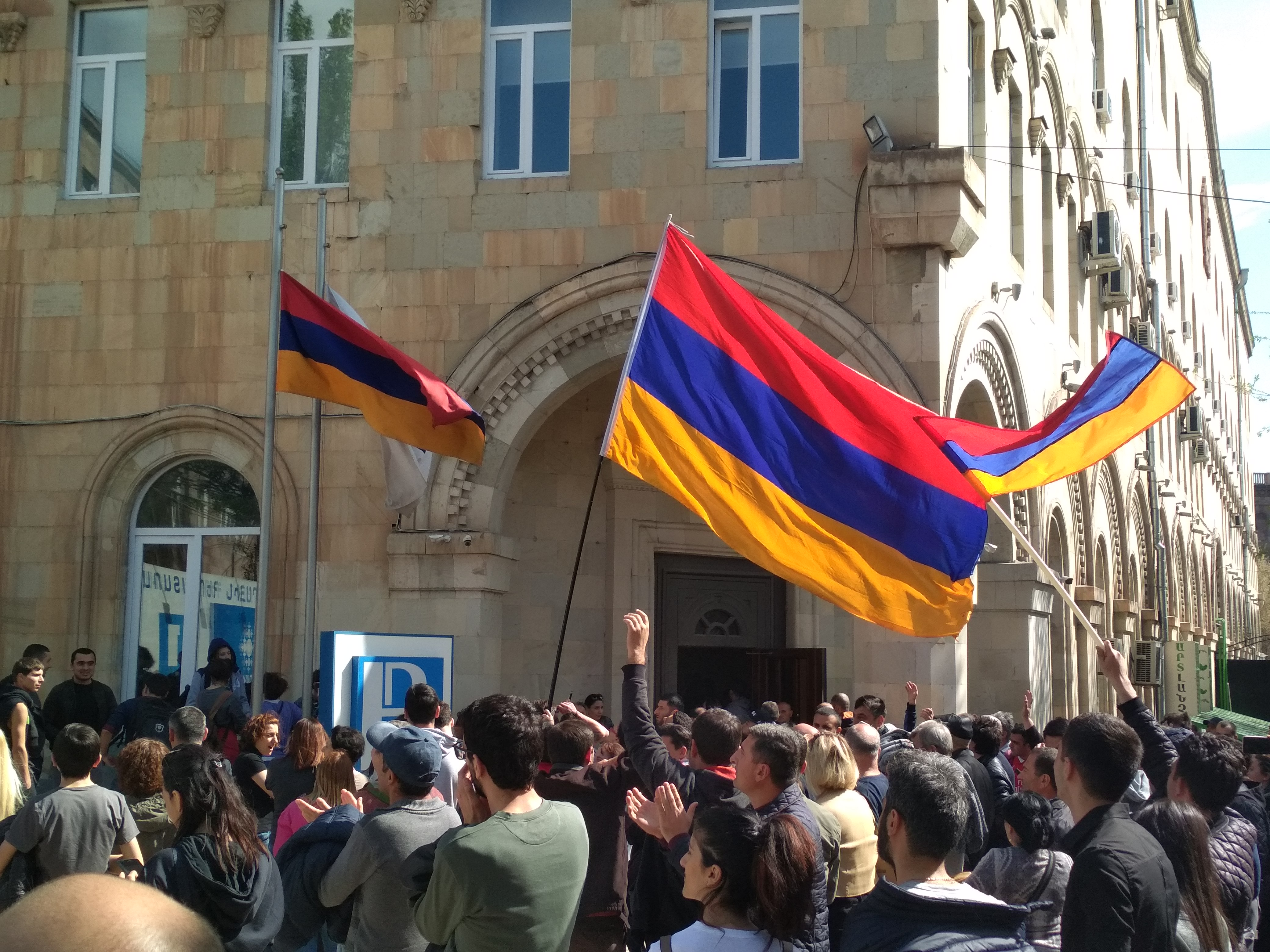 Demonstrators at public radio